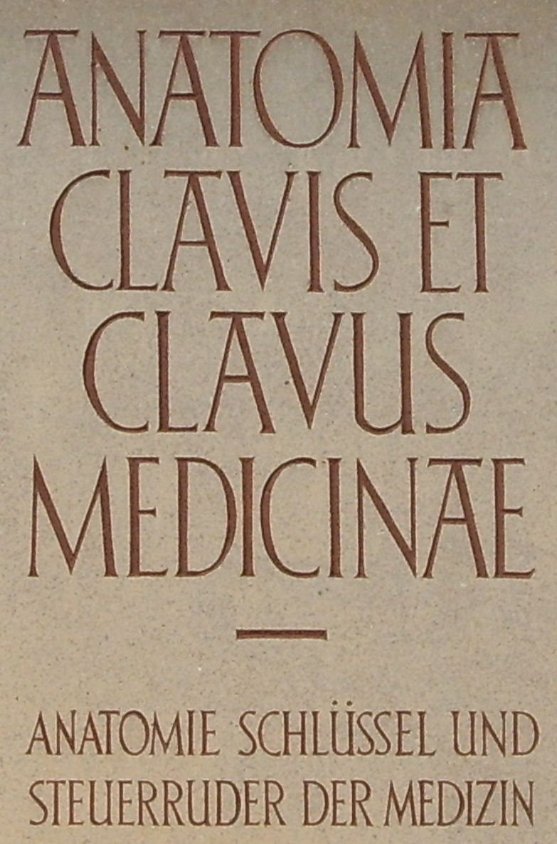 Lecture hall of the Anatomy department of the Leipzig University